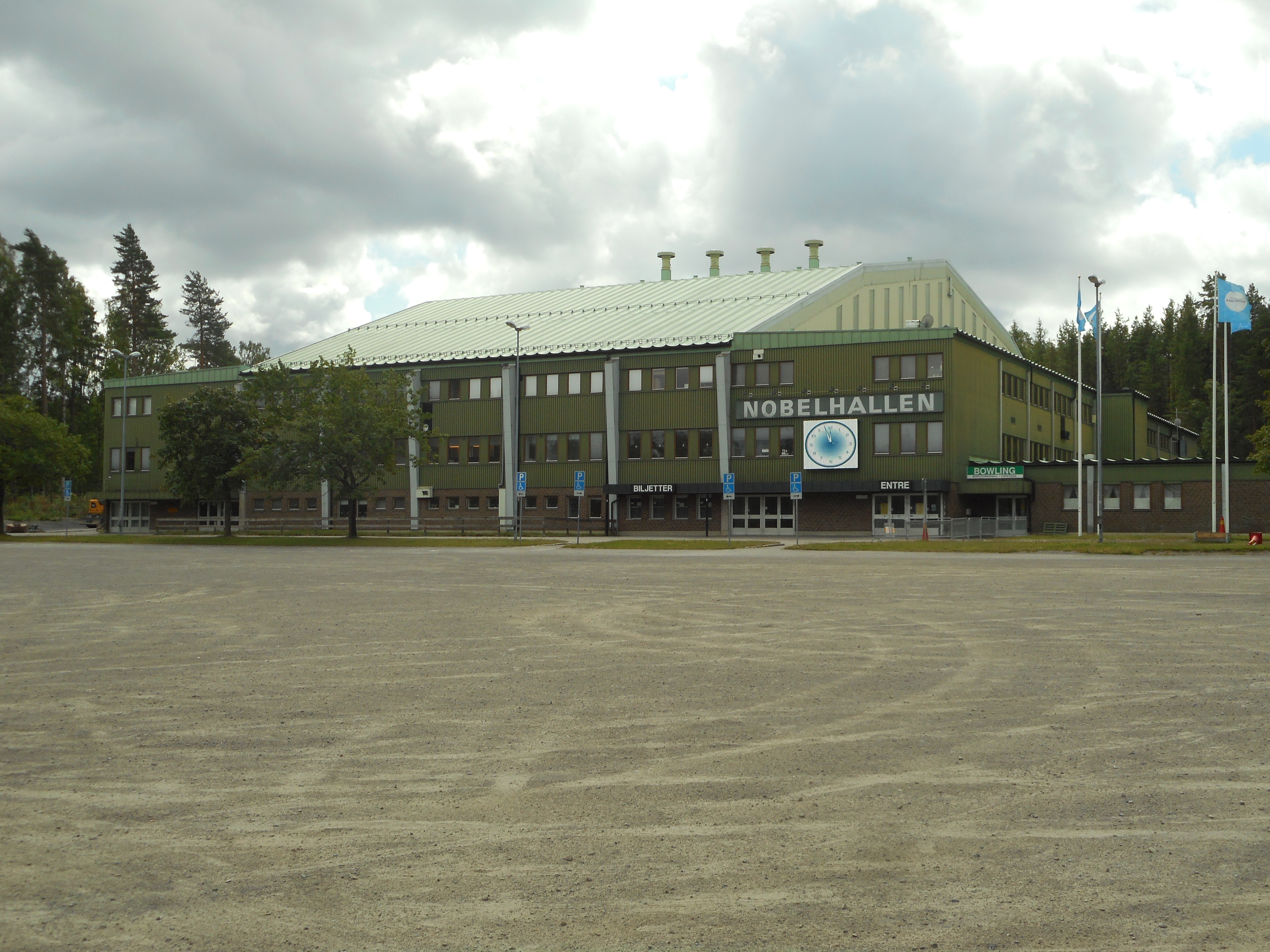 Nobelhallen venue for ice hockey at Norrleden 2, Karlskoga, Sweden